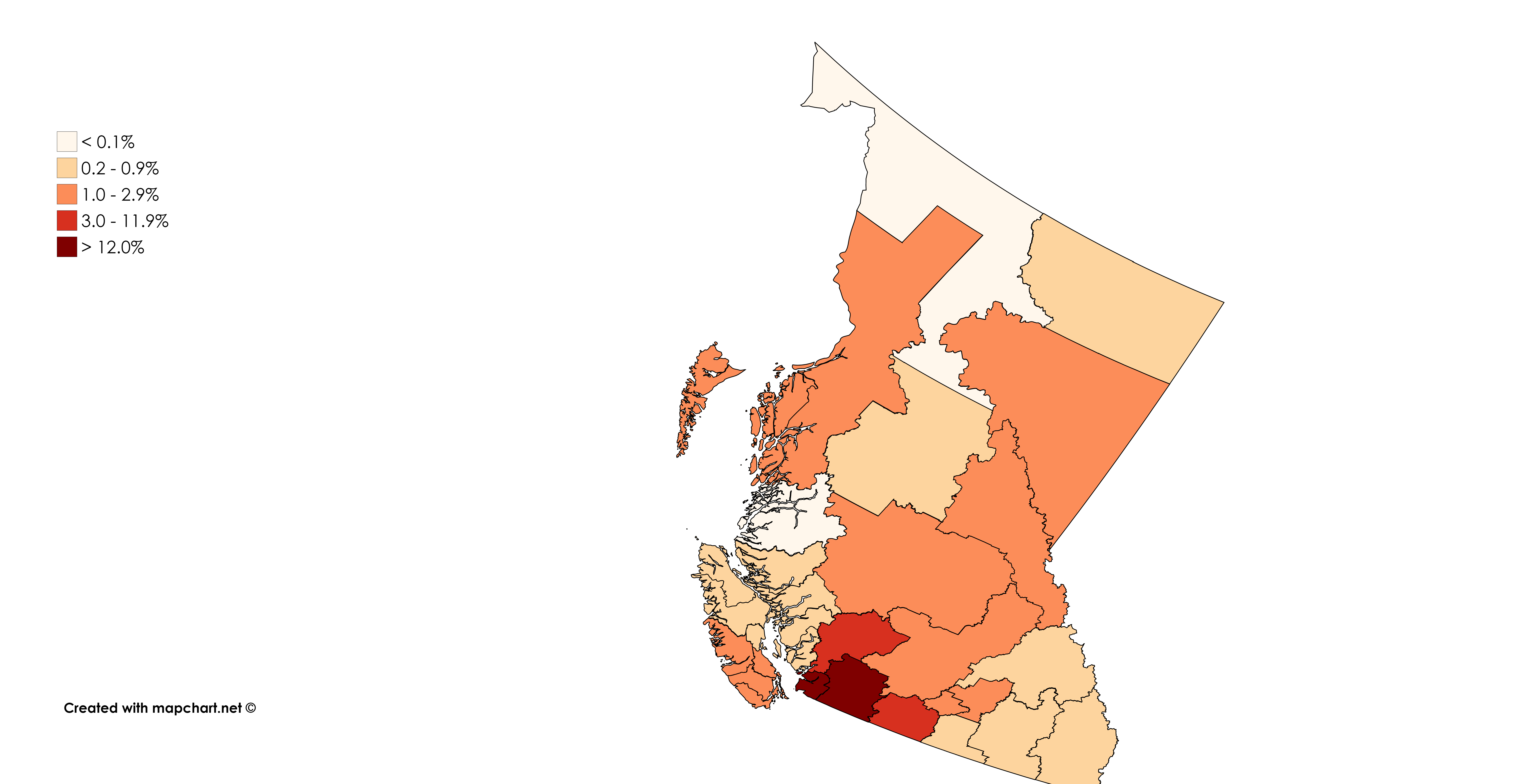 Population distribution of South Asian Canadians by % of total population by regional district, 2016 census